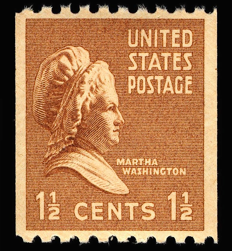 US Postage stamp, 1938 Presidential issue, coil stamp, Martha Washington 1½c